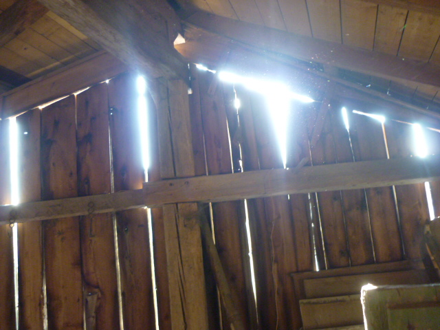 Sunlight throug palisades